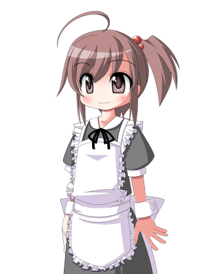 Original character